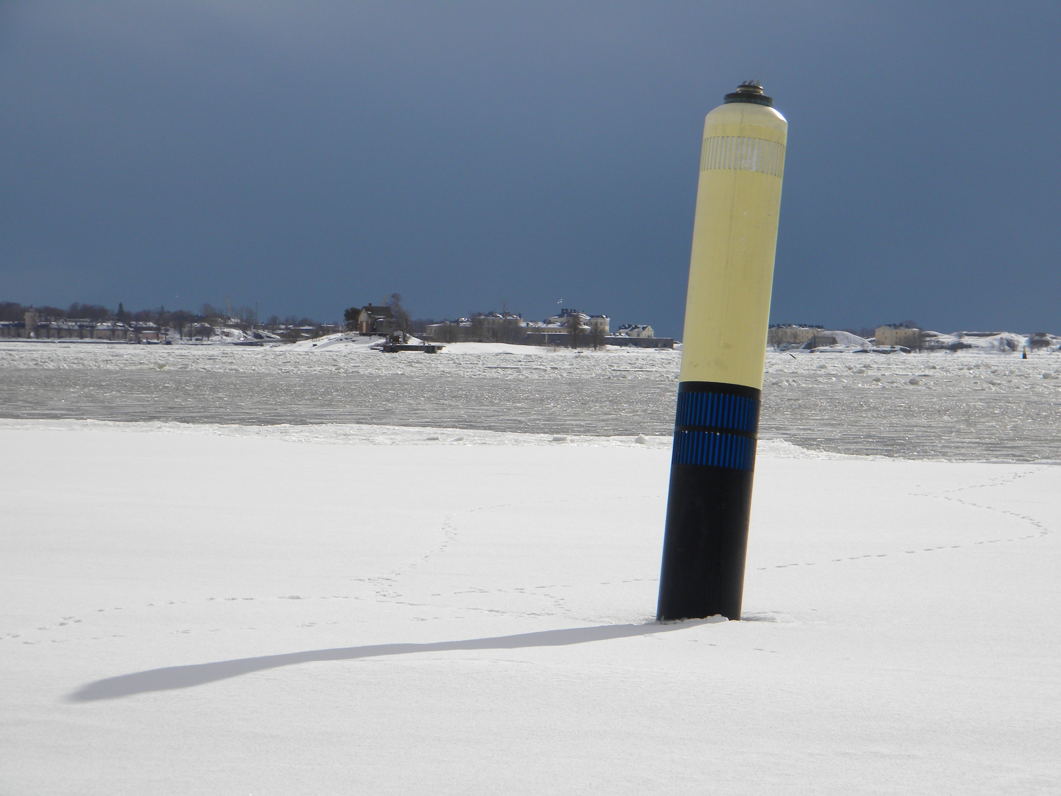 A cardinal mark (south) in front of Helsinki, Finland in winter. The islands behind the mark are parts of the Suomenlinna Sea Fortress. The Gulf of Finland is frozen, but sealanes are keeped open by breaking ice or the ships travelling are able to brake the ice.